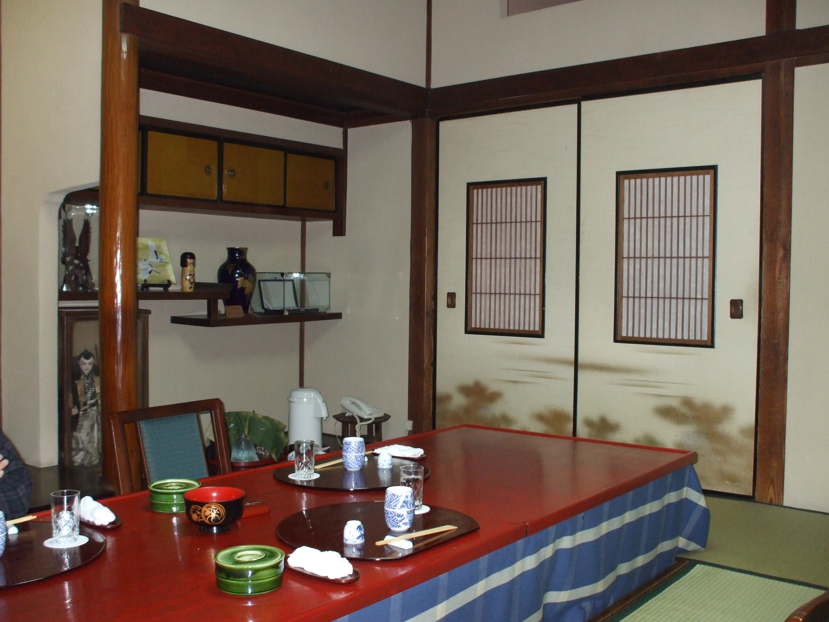 Komatsu is a Japanese restaurant in Yokosuka, Kanagawa, Japan.